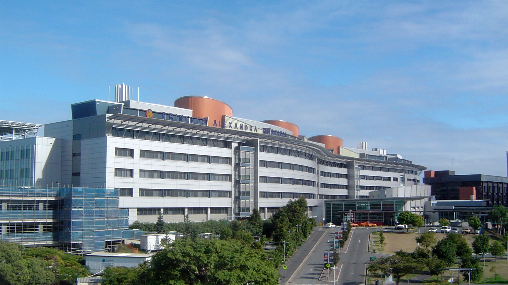 Photograph of main entrance to the Princess Alexander Hospital in Brisbane, Queensland, Australia